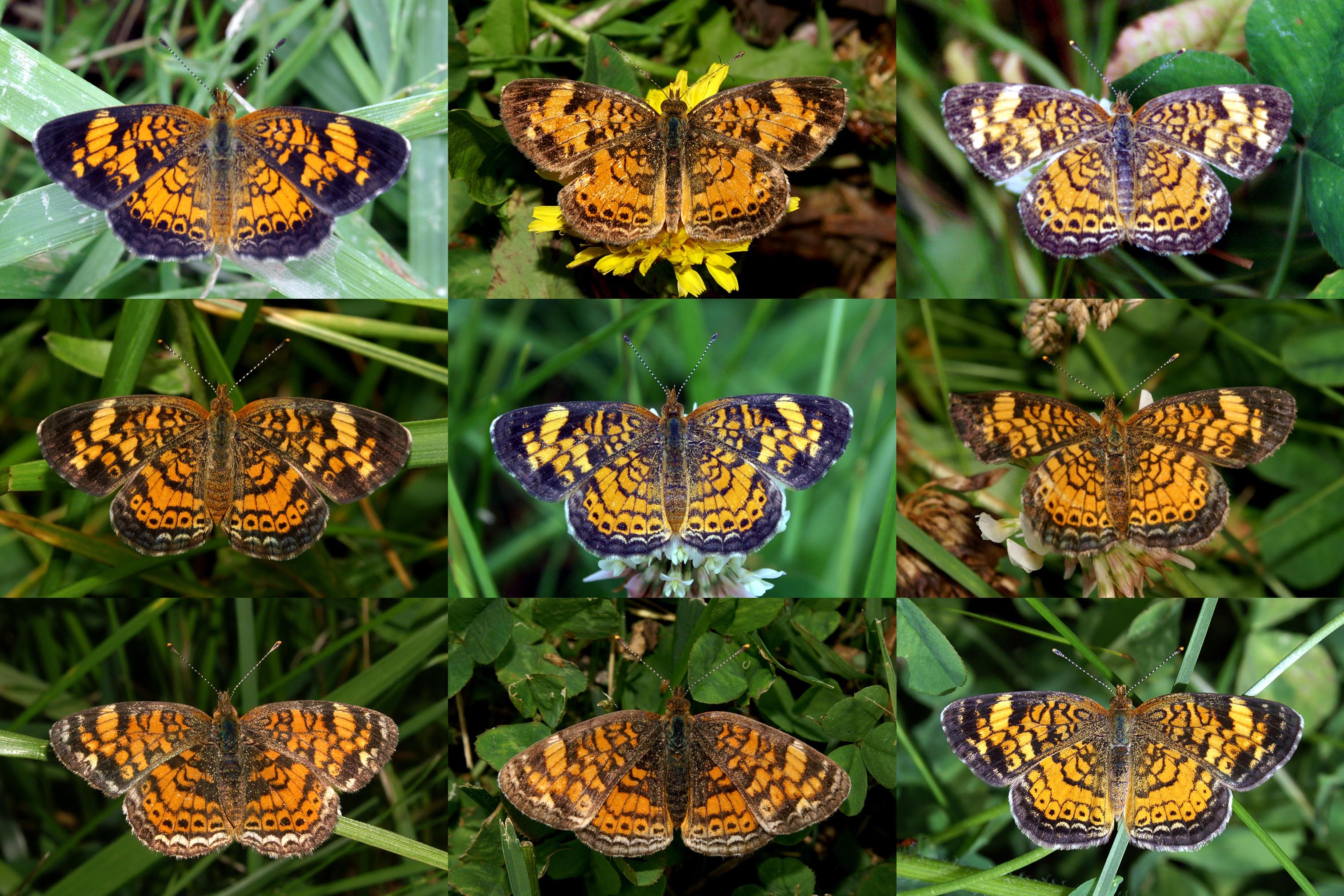 Composite photograph showing the variability in the Pearl Crescent species. Taken by Kenneth Dwain Harrelson, between May 8th and June 8th, 2007.